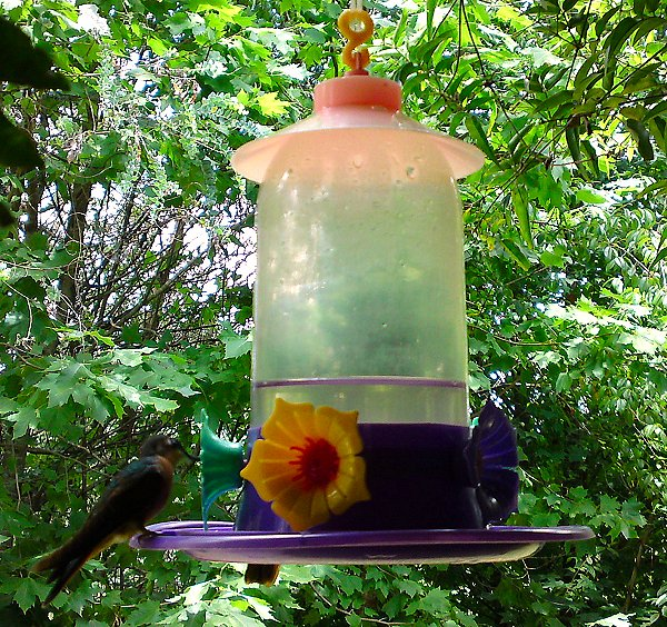 Hummingbird from Mata Atlantica with food provided -1